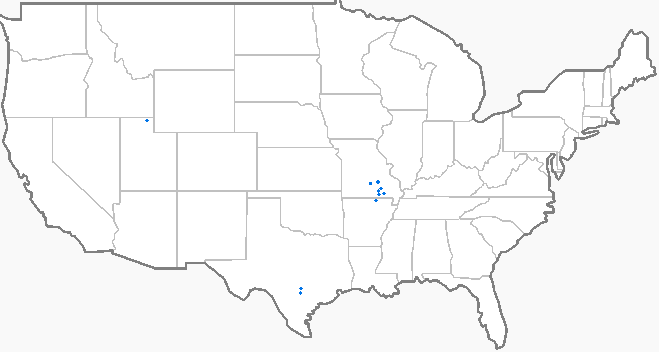 Approximate location of karst springs in the United States (Lower 48). The file shows karst springs are listed in the "List of karst springs in the United States" in the german Wikipedia. For questions and suggestions contact the author. State border Country border Karst spring